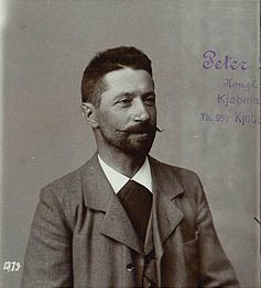 Hans Peder Pedersen-Dan (1859-1939), Danish sculptor (cropped from stereoscopic image)